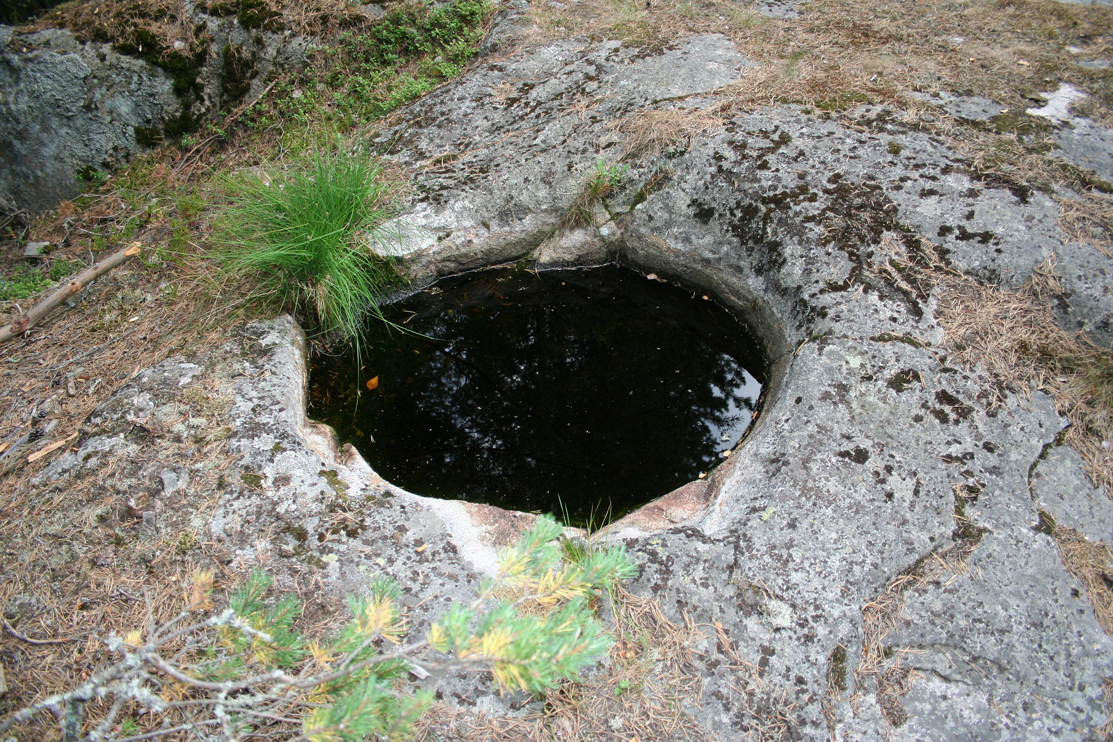 Pothole in village of Uotila in Rauma, Finland. Diameter about 1.3 meter